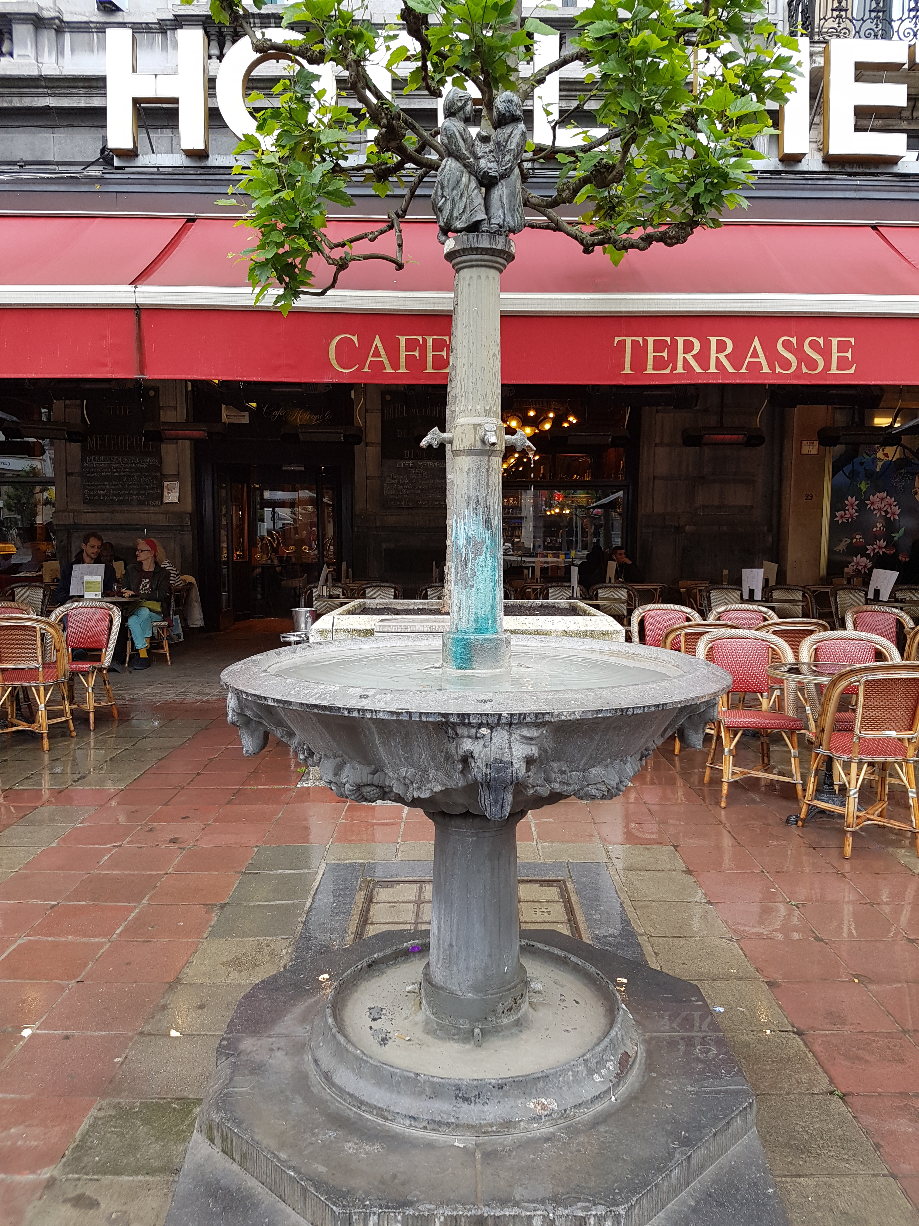 Ornamental drinking water fountain